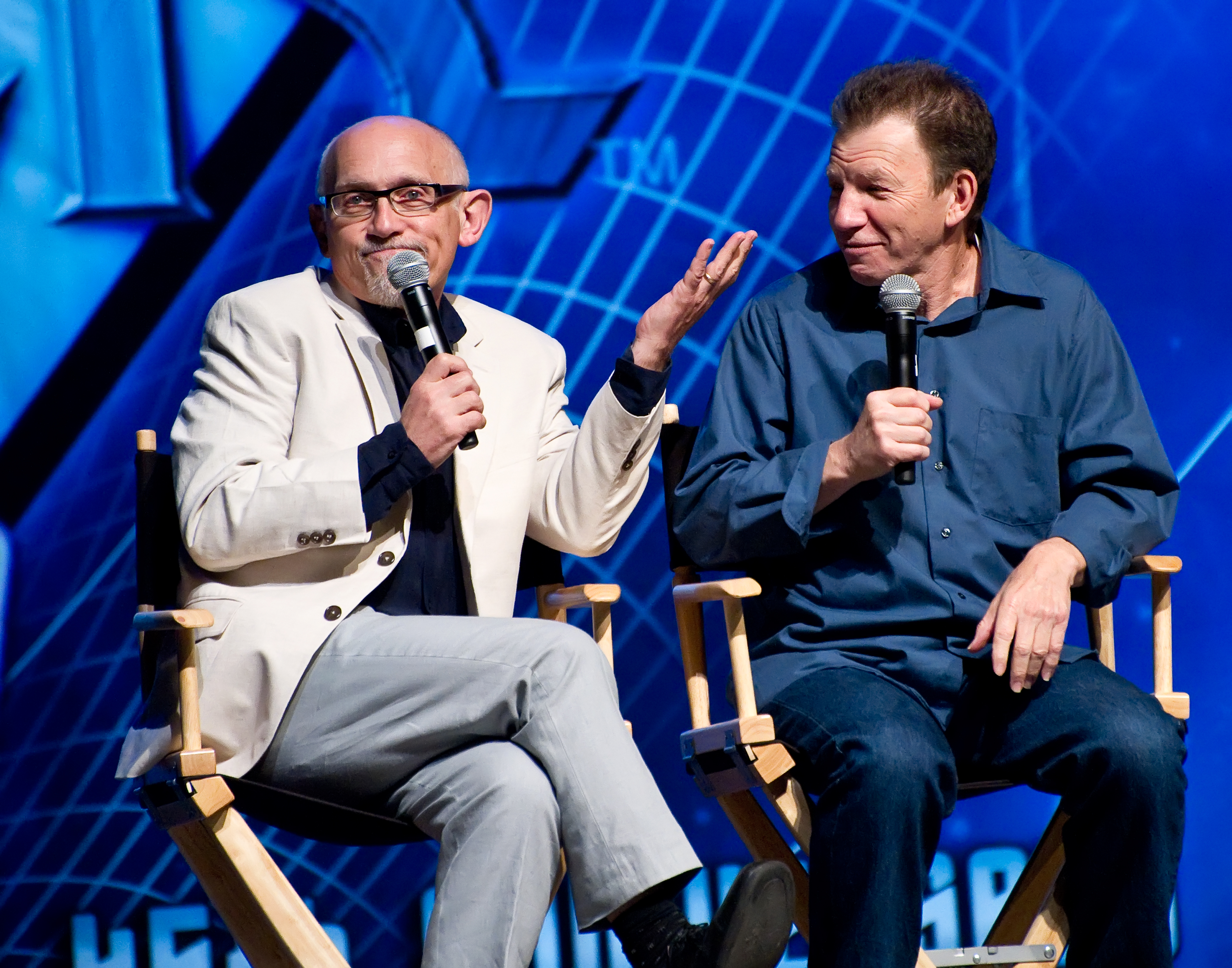 Armin Shimerman and Max Grodénchik at the Star Trek convention in Las Vegas in 2011.